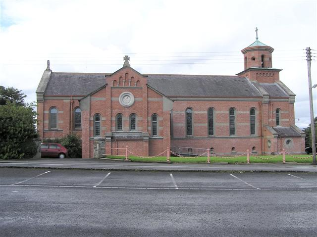 Ardmore RC Church. Looking north